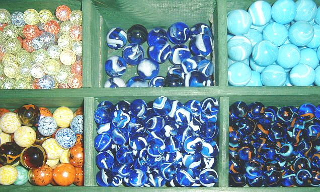 Different glass marbles from a glass-mill